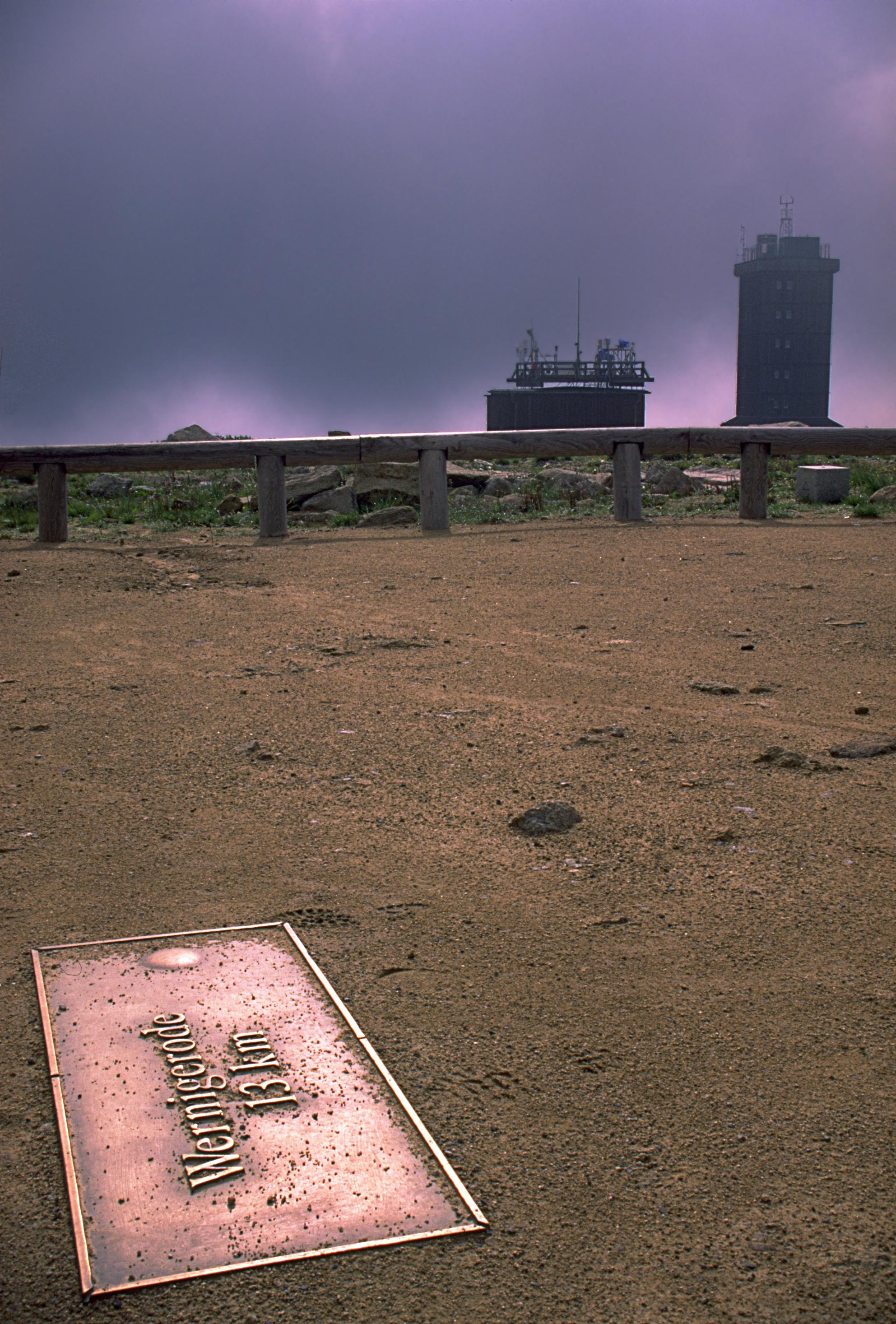 Wernigerode sign on top of mount Brocken, Germany Photo was taken using the following technique: Film: Lens: Minolta 2.8/28 Filter: none Body: Minolta 9000 Support: Image with Information in English Bild mit Informationen auf Deutsch